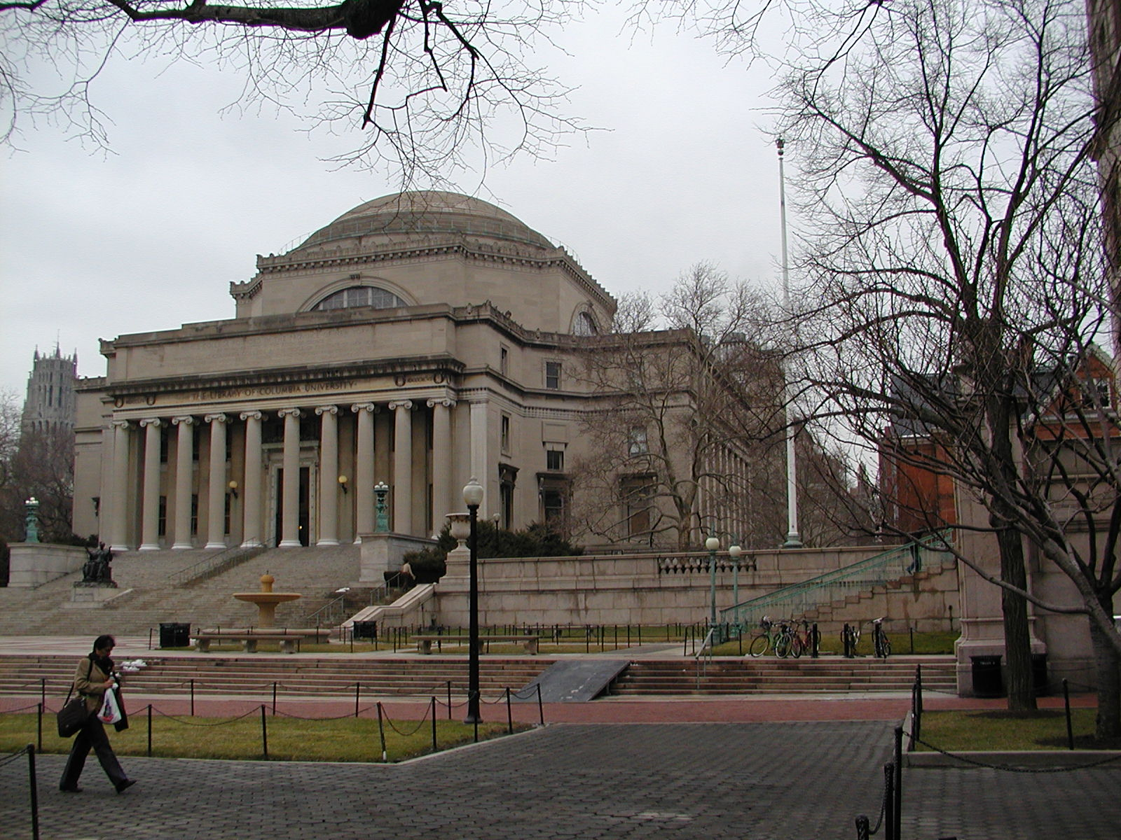 Low Library at Columbia University I (Petri Krohn) took this picture in March 2005. Category:Photographs by User:Petri Krohn